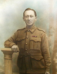 Photograph of Studio portrait c.September 1918 of 2504A PTE Caleb Shang DCM & Bar, MM. 45th Bn Australian Imperial Force.